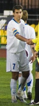 Ansar Ayupov as a captain of FC Baltika